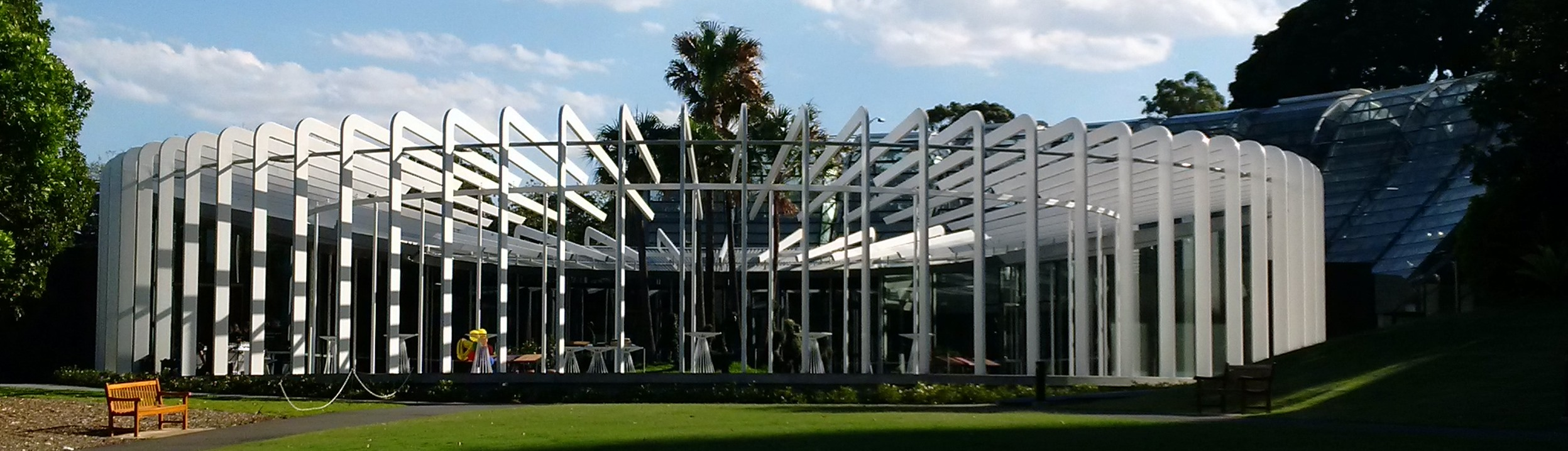 Calyx glass house and function centre in the Royal Botanic Gardens Sydney